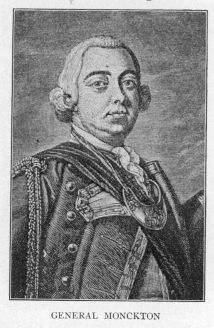 An Image of Robert Monkton.